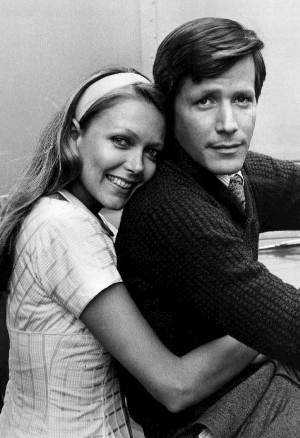 Photo of Peter Strauss as Rudy Jordache and Susan Blakely as Julie Prescott from the 1976 television miniseries Rich Man, Poor Man.